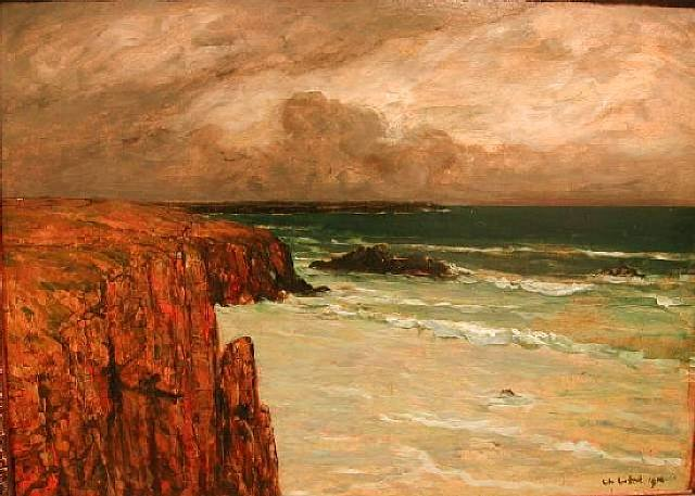 "Sea Landscape in Brittany", Oil on board, h: 53 x w: 73 cm / h: 20.9 x w: 28.7 in